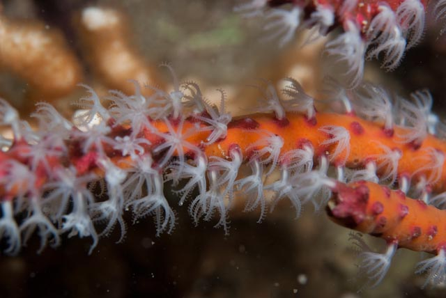 a photograph of a gorgonian twig coral, Homophyton verrucosum, taken offshore of Port Elizabeth in 20m of water using a Fuji Finepix S5